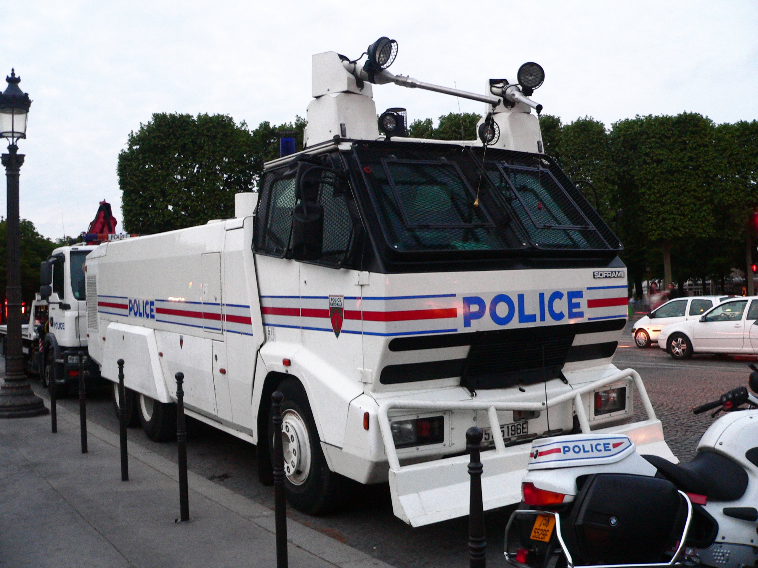 French National Police water cannon waiting in front of the Grand Palais, Champs-Élysées, in case of rioting following Nicolas Sarkozy's election